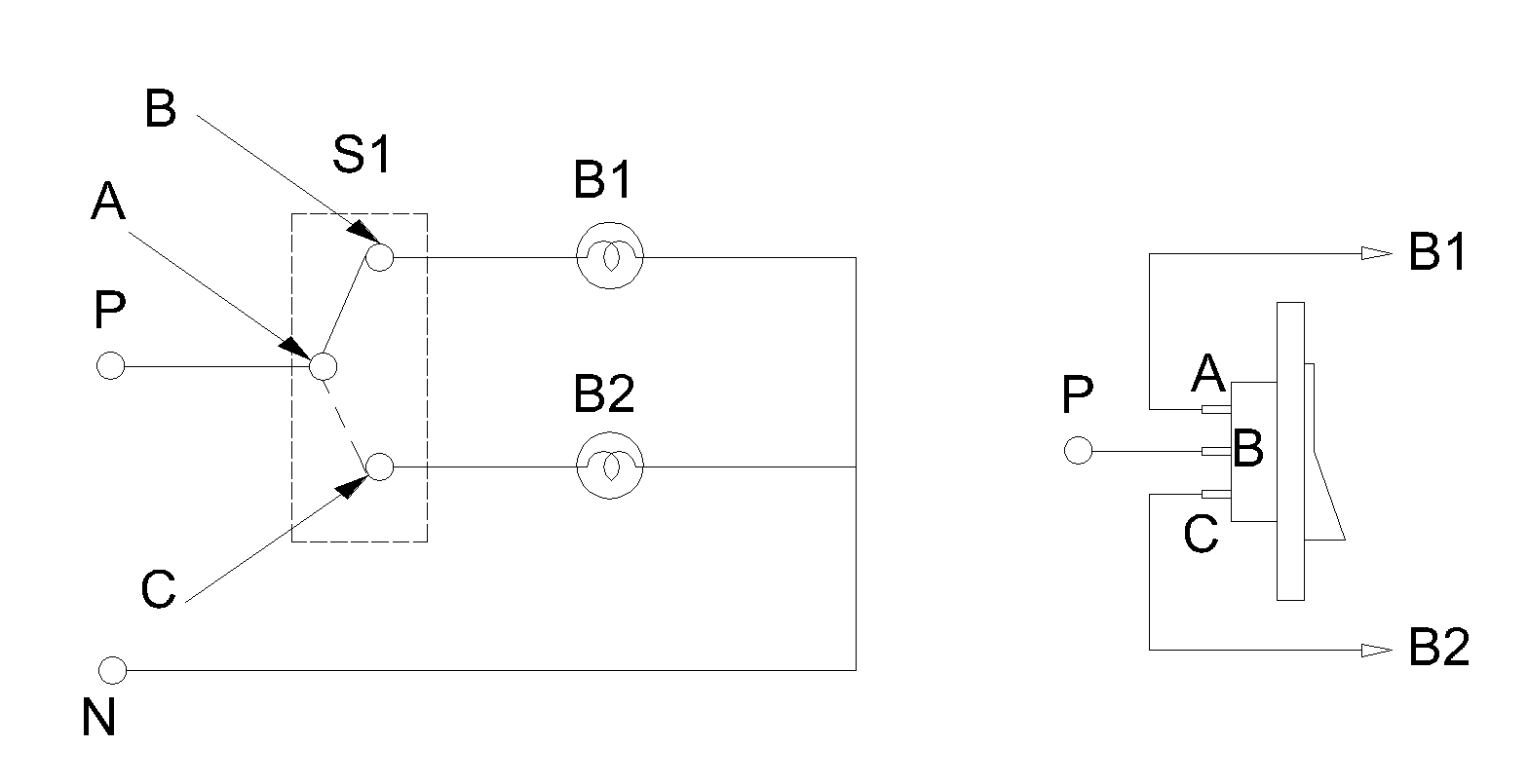 SWITCHSPDT